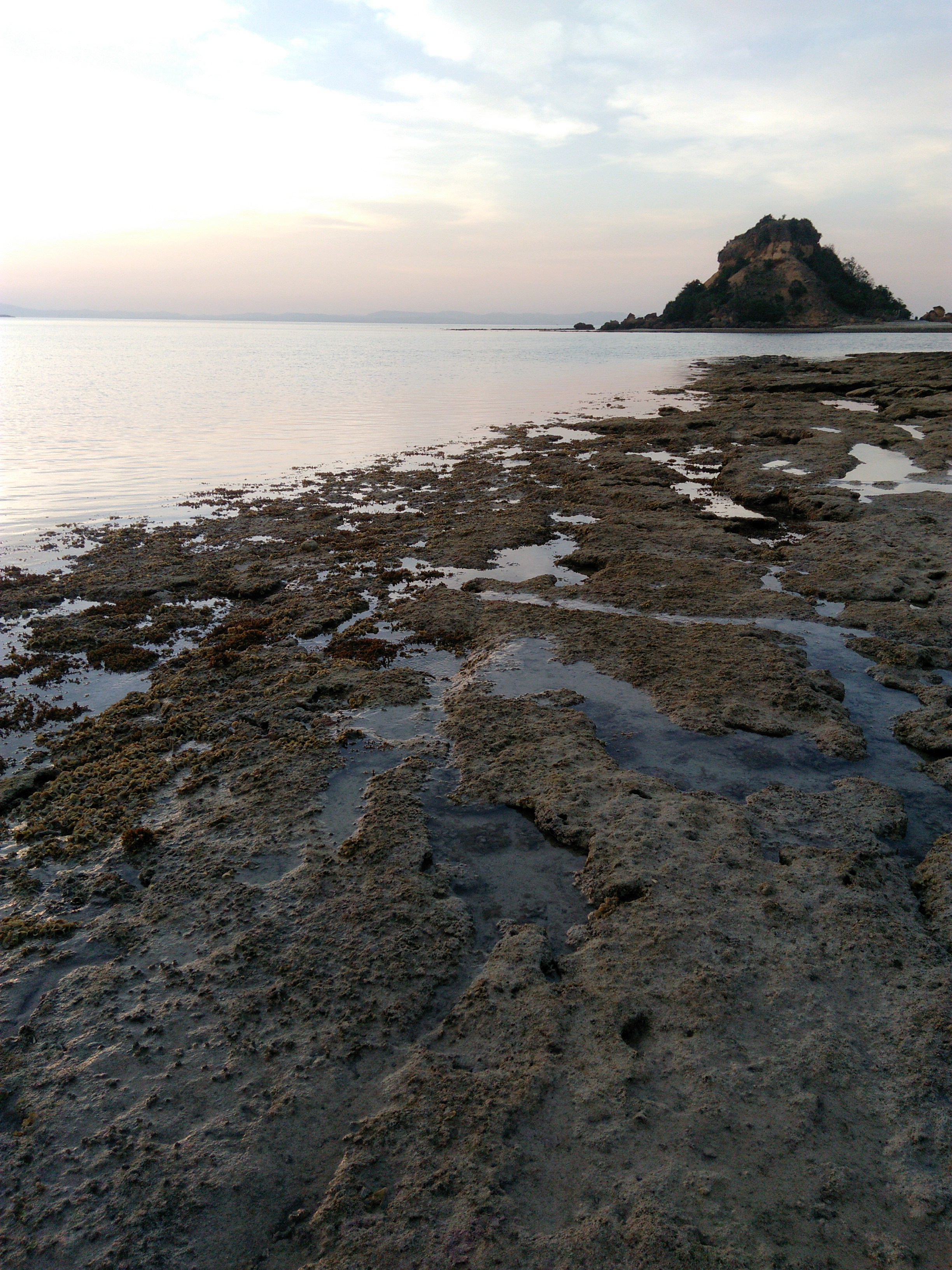 At Sombrero Island overlooking the Pulong Dapa Island at nearly dawn time.